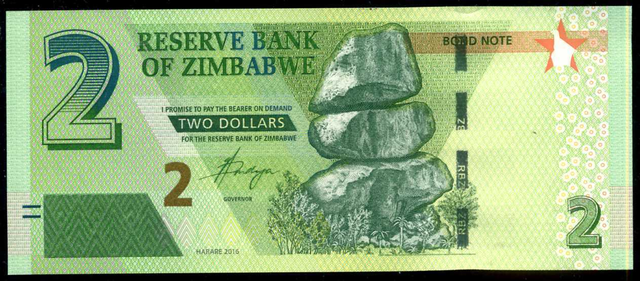 This is an image of a banknote of Zimbabwe